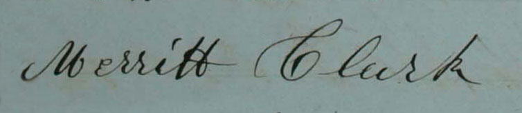 Signature of Merritt Clark from the Franklin House Hotel Guest Register. He stayed at the Franklin House February 12, 1855. The Franklin House Hotel Guest Register September 1854 - April 1855 from the private collection of H. Blair Howell.